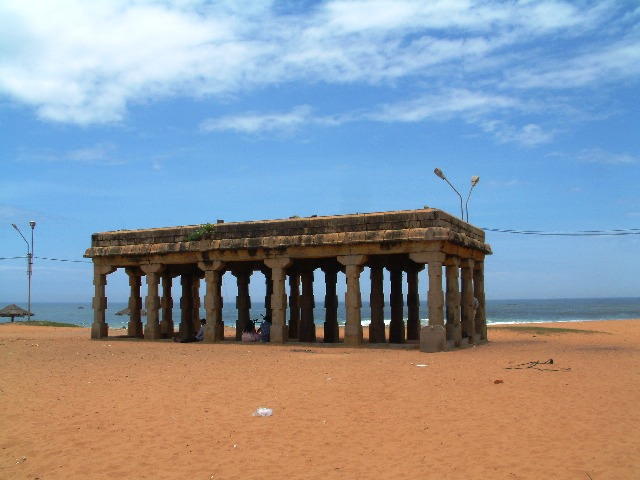 Shanmukham beach, Thiruvananthapuram